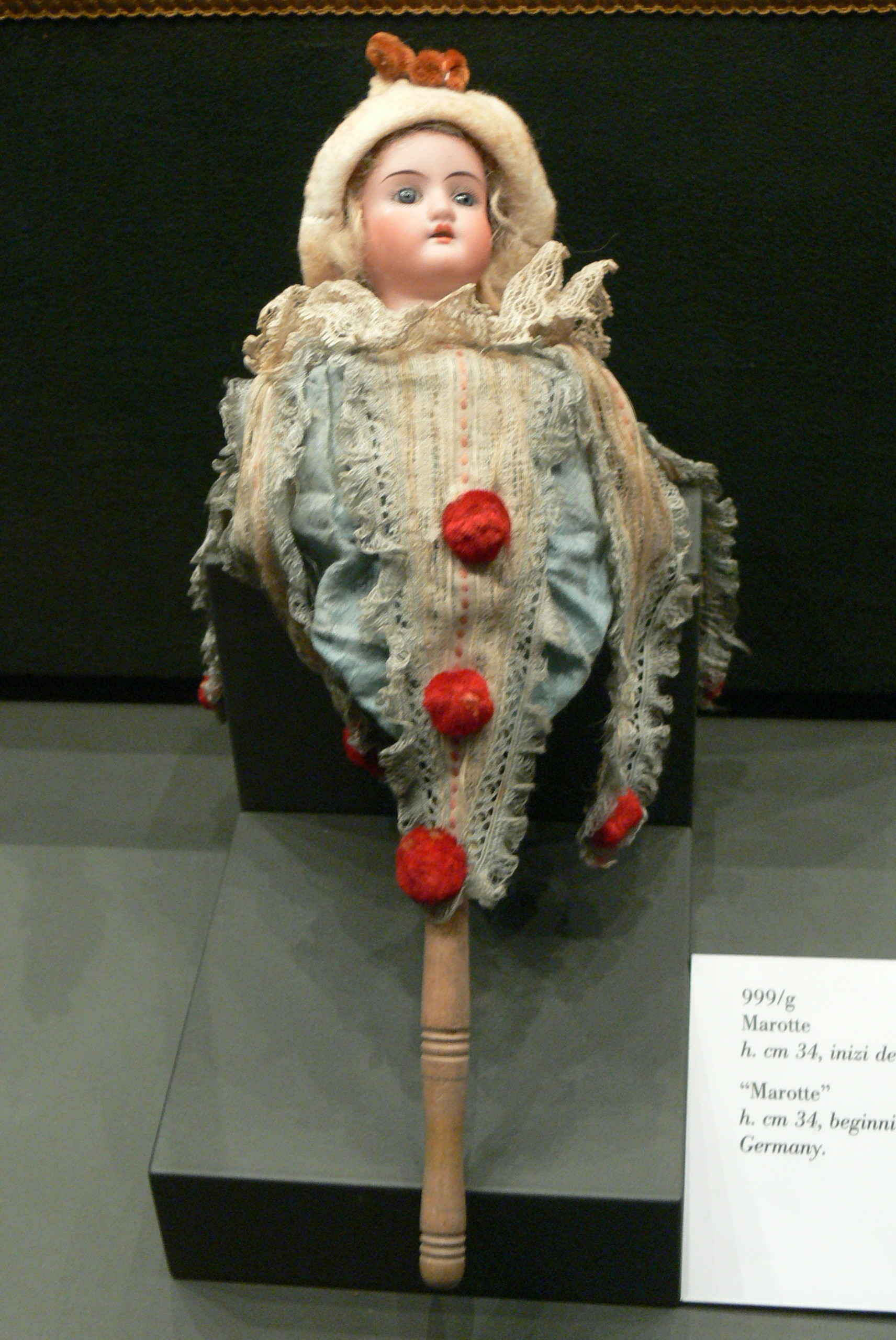 Angera castle ( Varese ). Doll museum - Marotte ( sceptre ) of a jester.